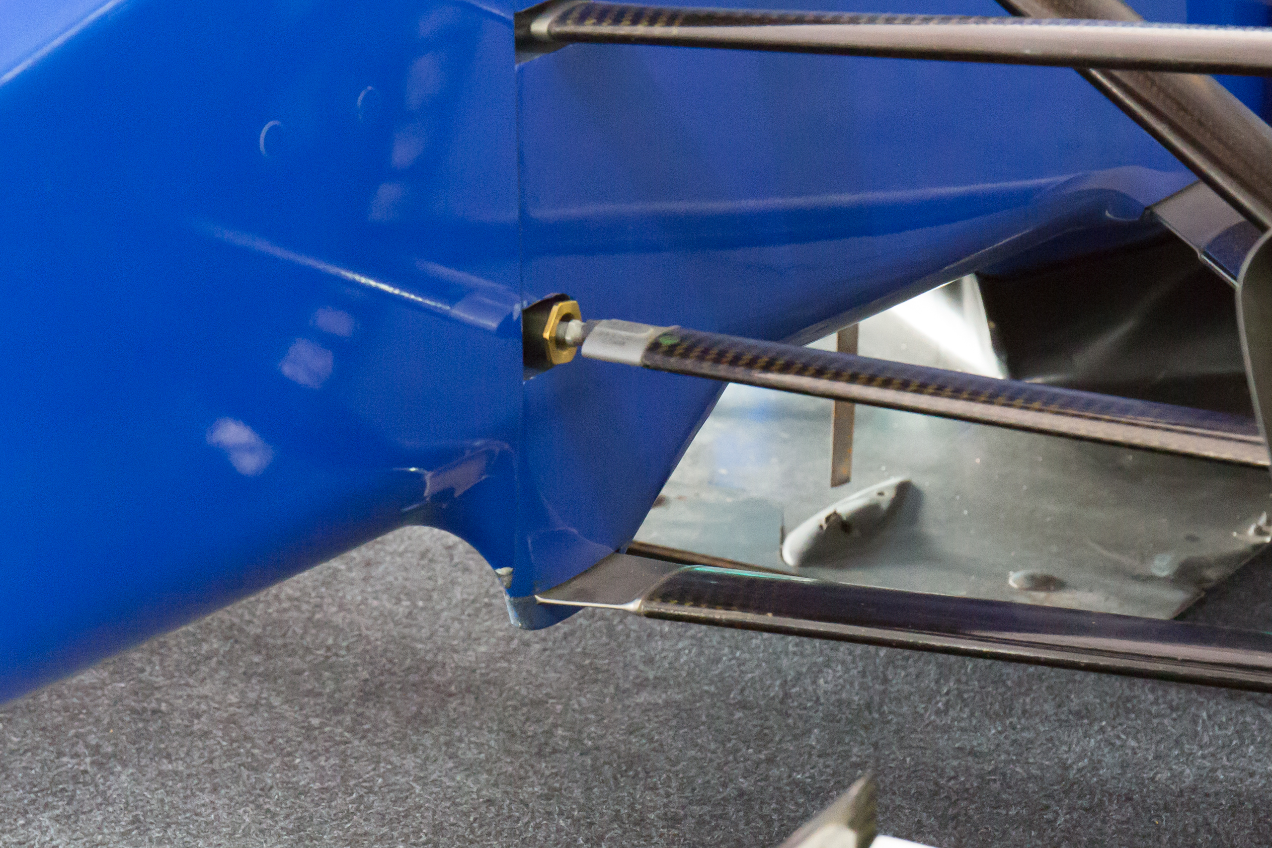 Formula One 2013 Rd.2 Malaysian GP: Sauber C19's front suspension lower mount (twin-keel)